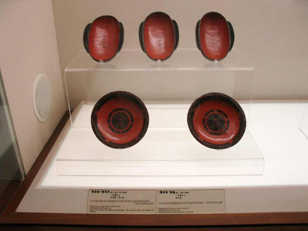 A set of lacquered flanged cups (top) and lacquerware dishes (bottom) from the Chinese Western Han Dynasty (202 BC - 9 AD), unearthed from the 2nd-century-BC Tomb No. 1 at Mawangdui, Changsha, Hunan province, China. The flanged cups have wooden bodies shaped by hewing. They were used for drinking and eating. Height: 6cm; length: 20 cm; width 14 cm. The lacquerware dishes have wooden bodies shaped by trimming. Height 4 cm; diameter 19 cm (at mouth).